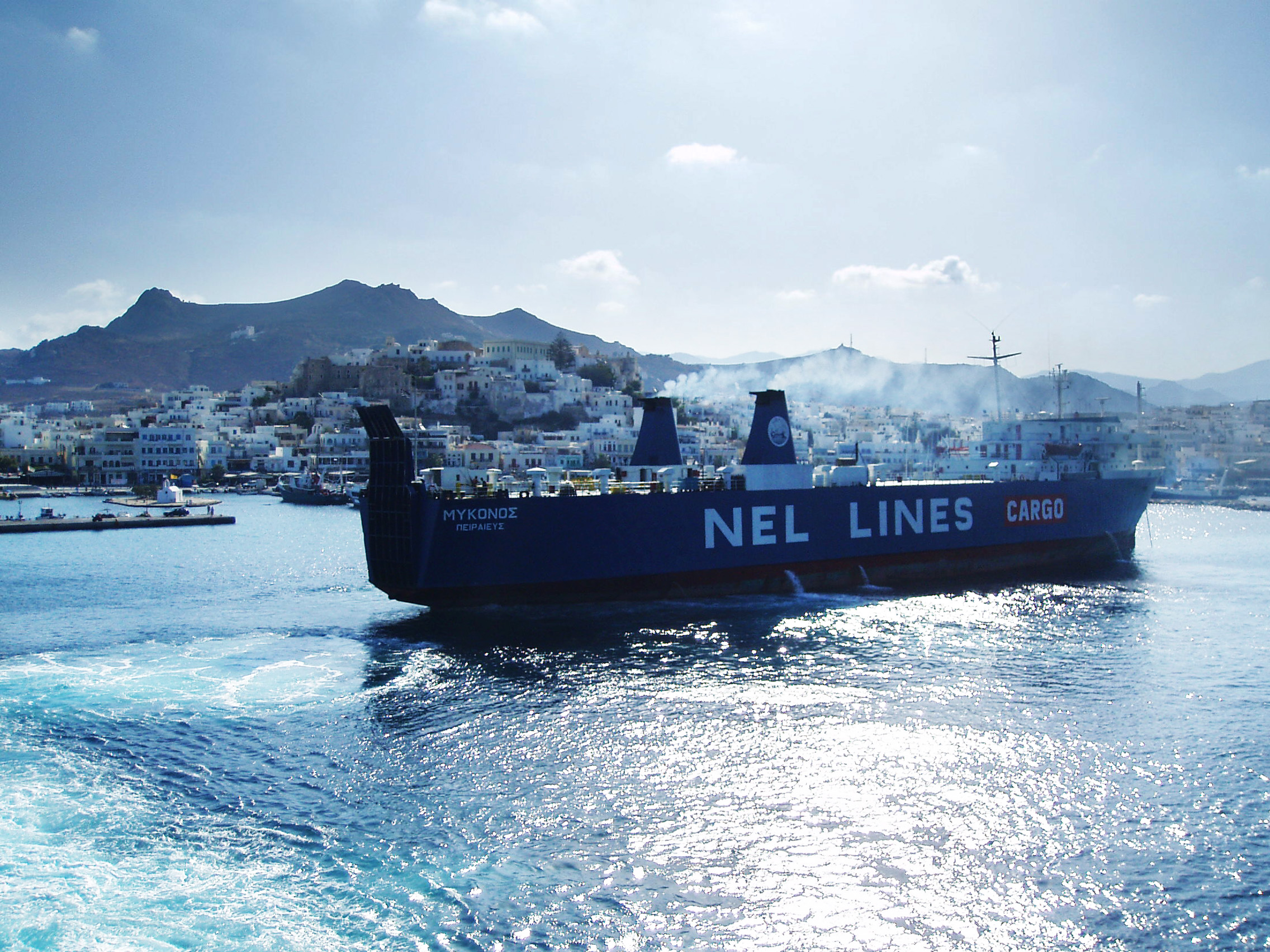 Naxos Port